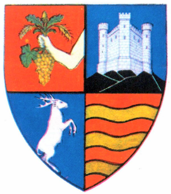 Interwar coat of arms of Sălaj County, Kingdom of Romania.